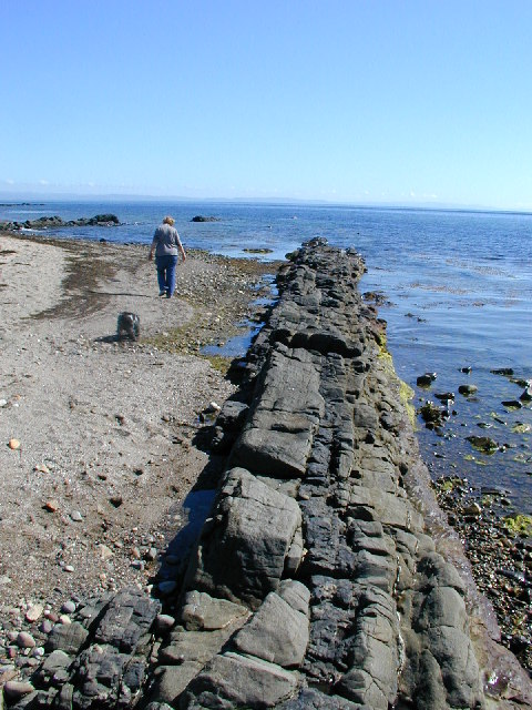 Igneous (dolerite) compound dyke. Part of a beach section full of tertiary dykes running out to sea - finer grained rock in the centre of the dyke, near Kildonan, Arran, Scotland.